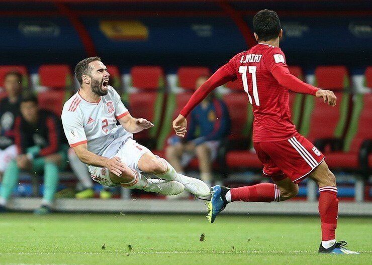 Iran and Spain match at the FIFA World Cup 2018 in Russia.